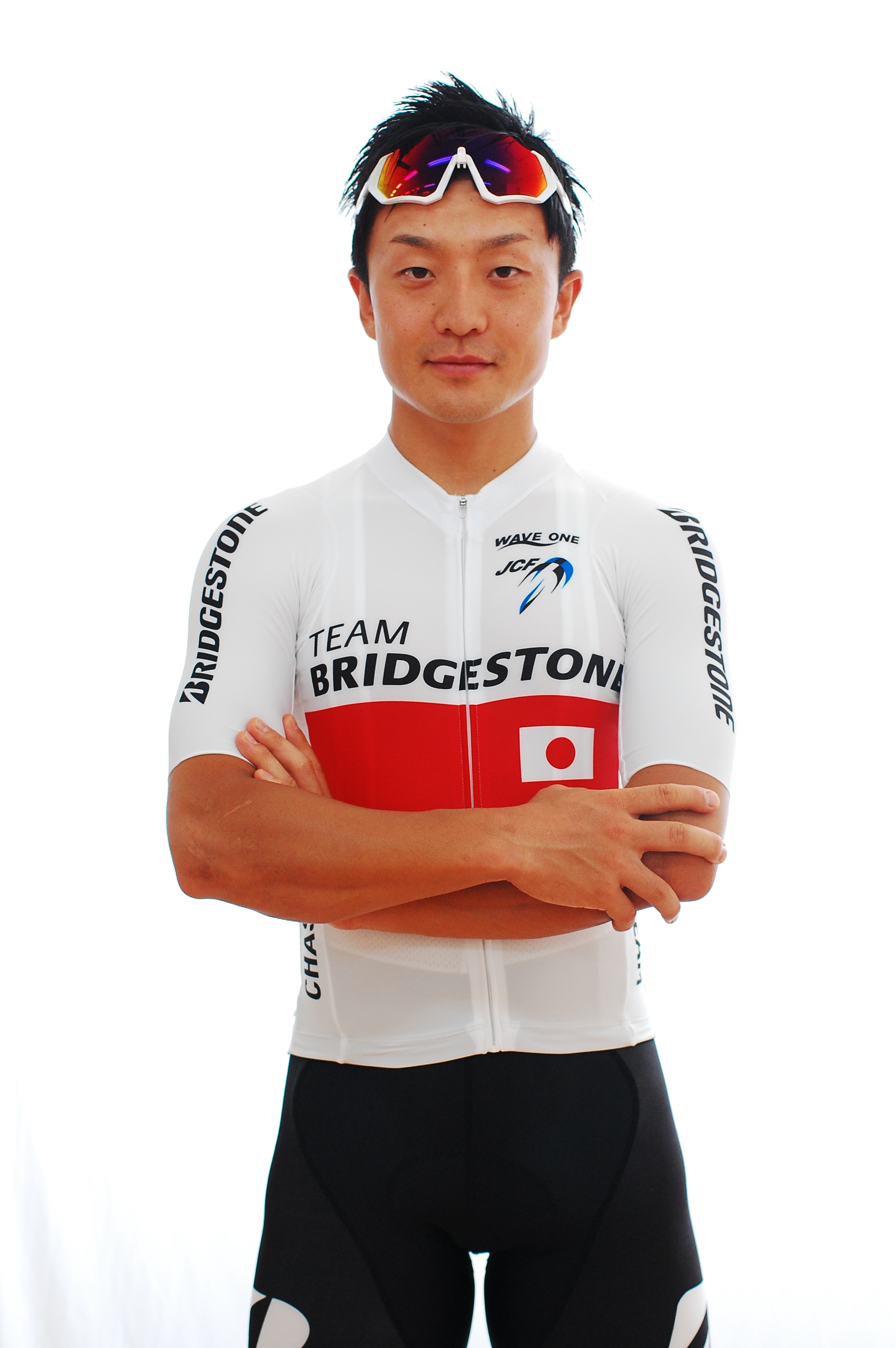 Portrait photo of bicycle racer Kazushige KUBOKI